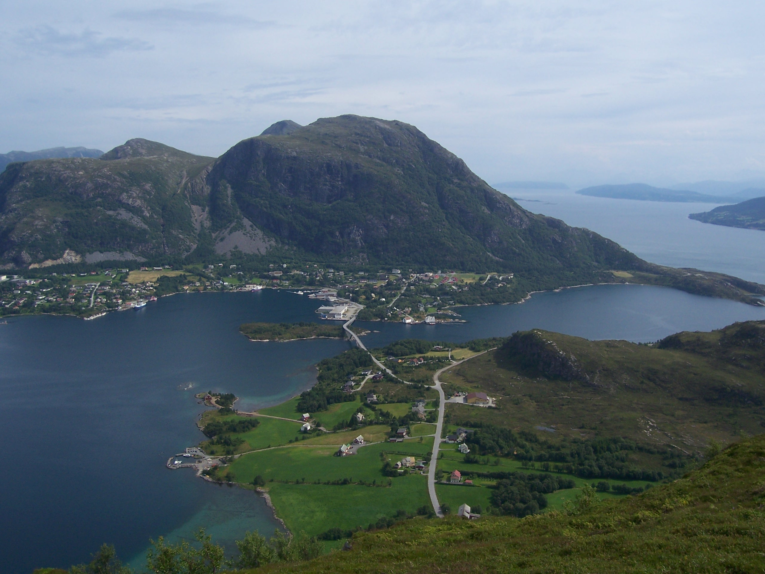 The village of Midsund, (Møre og Romsdal province, Norway) seen from the opposite shore of the small strait that separates the islands Otrøy (far side) and Midøy. A bridge connects the two islands. To the right the small strait connects with the larger Moldefjord.